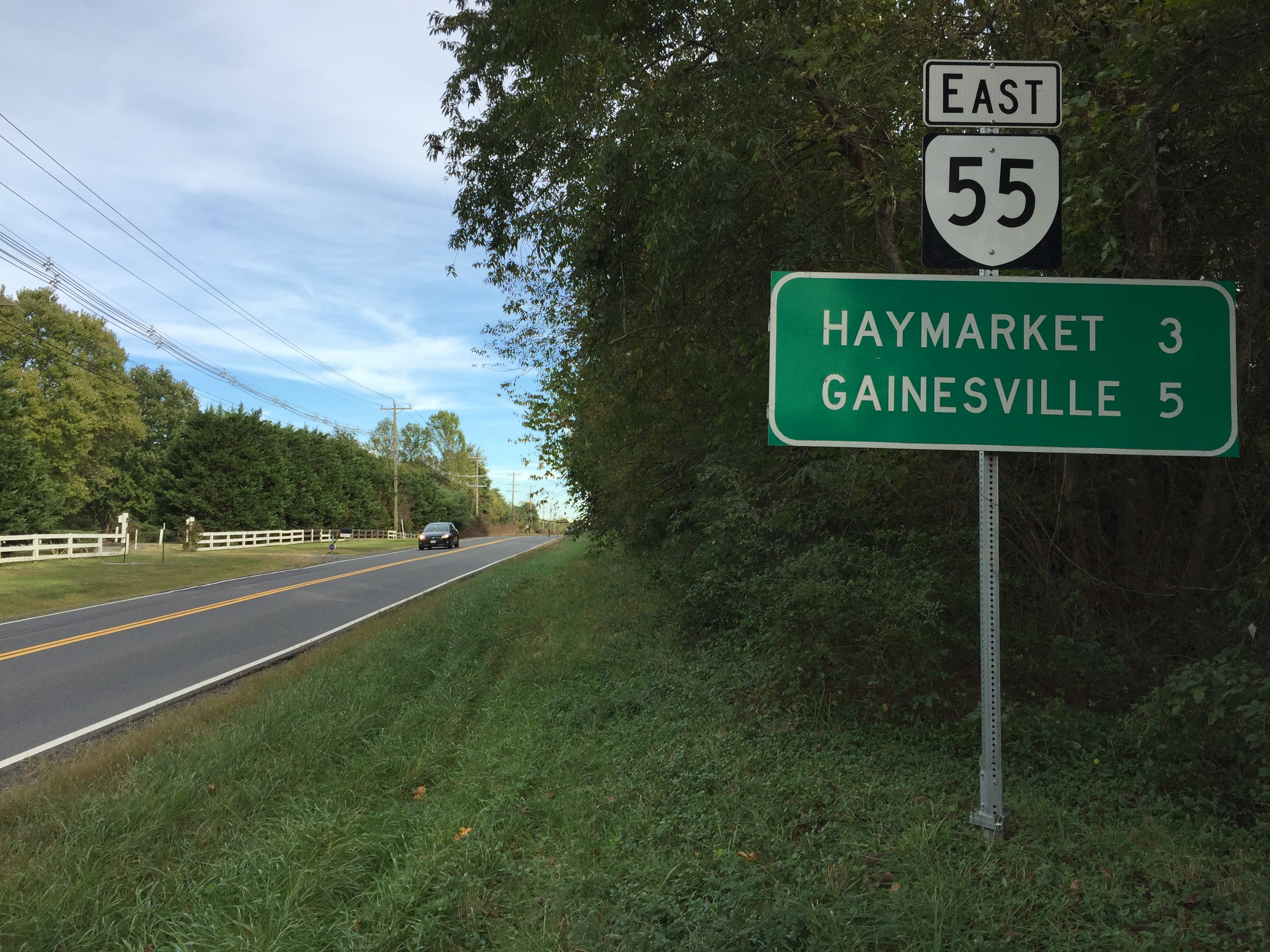 View east along Virginia State Route 55 (John Marshall Highway) just west of Virginia State Secondary Route 723 in Thoroughfare, Prince William County, Virginia